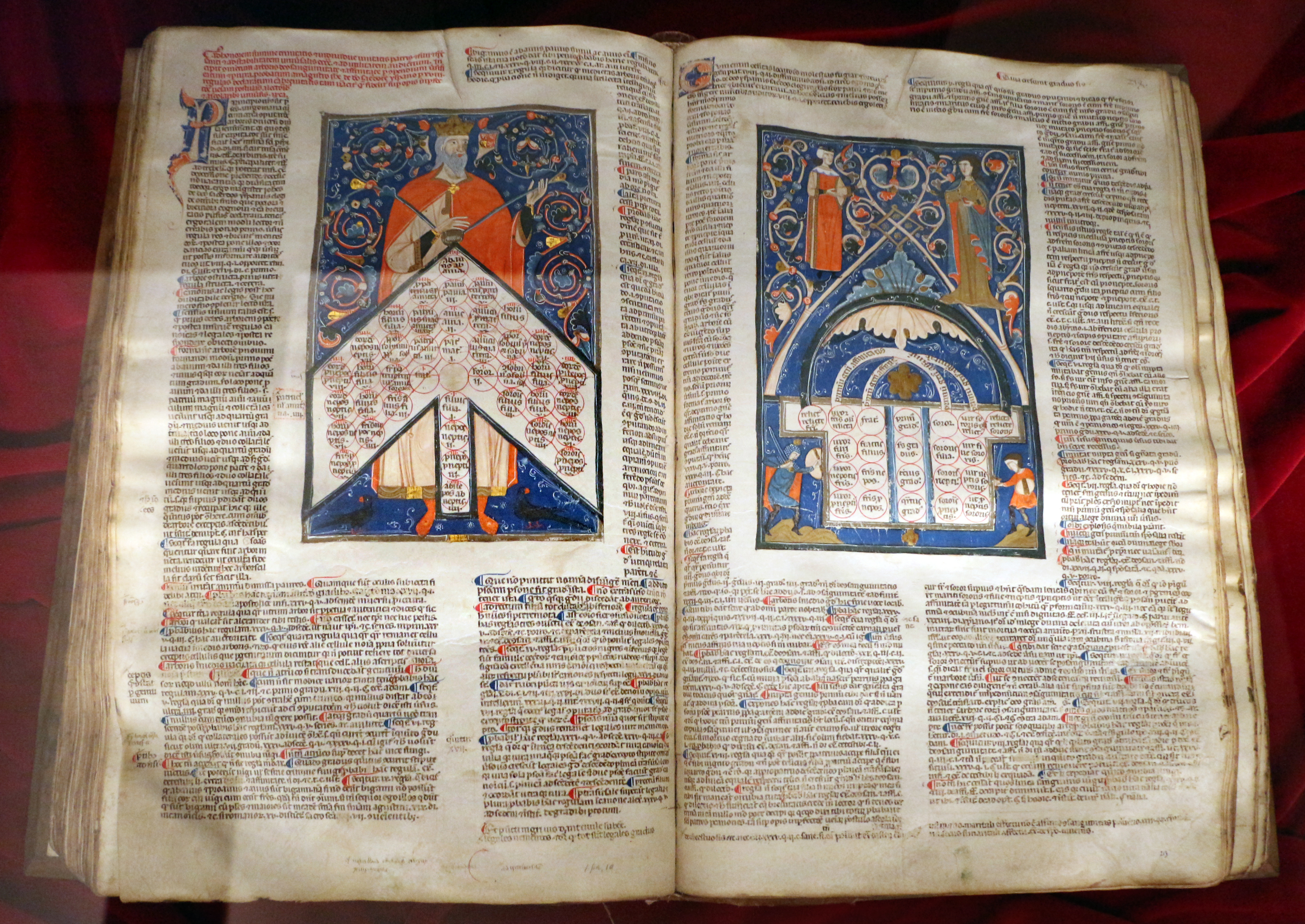 Biblioteca Medicea Laurenziana manuscripts